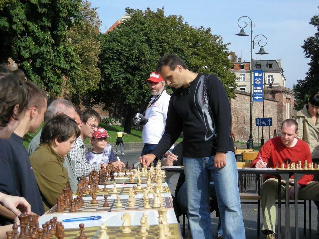 GM Andrei Maksimenko giving a simultaneous exhibition in Toruń, 2007.